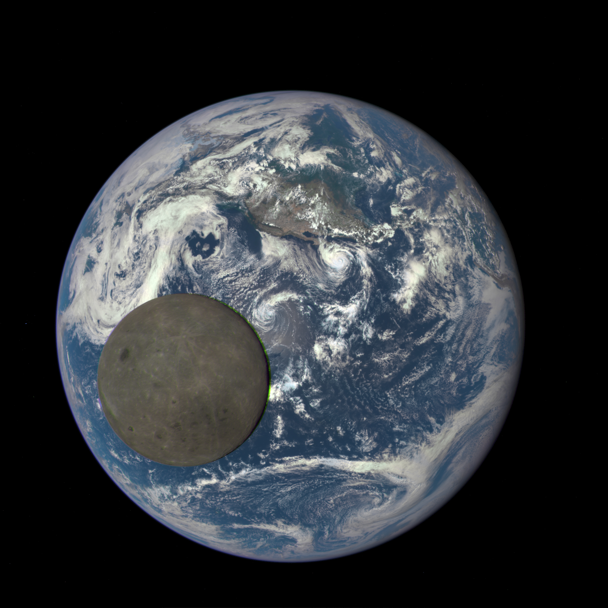 A NASA camera aboard the Deep Space Climate Observatory (DSCOVR) has captured a unique view of the Moon as it passed between the spacecraft and Earth. A series of test images shows the fully illuminated “dark side” of the Moon that is not visible from Earth.